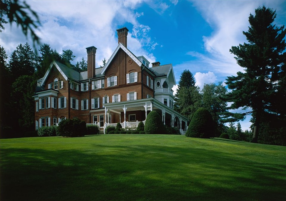 Former mansion of George Marsh, now within the Marsh-Billings-Rockefeller National Historical Park, located in Woodstock, Vermont.